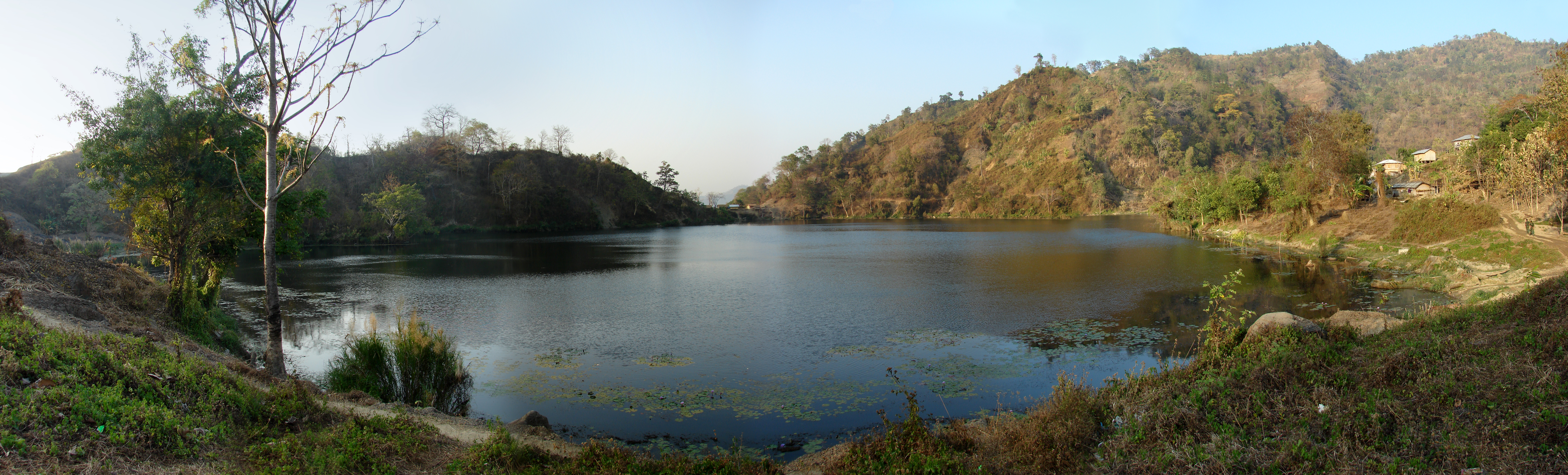 Bogakain Lake is a natural lake on 1227 feet above sea level, located in Ruma, Bandorban, Bangladesh.